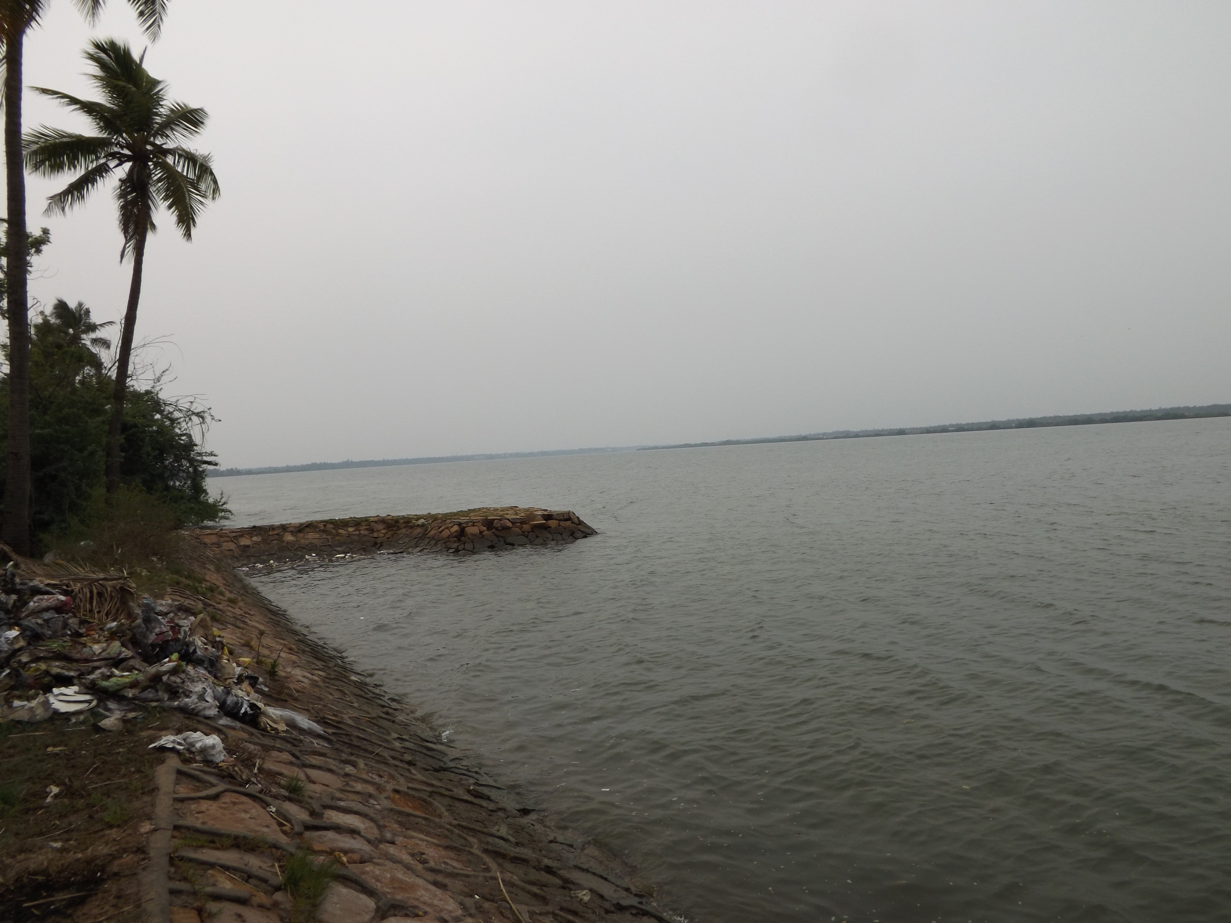 rever bank of godavari-3